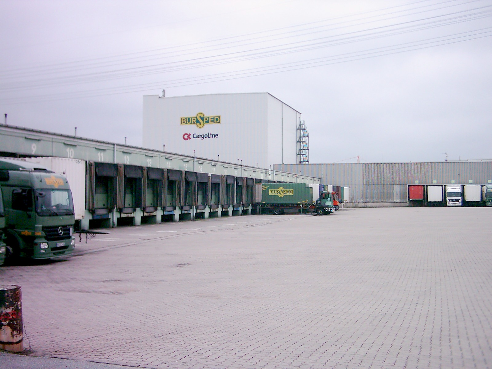 Freight forwarder BurSped, Hamburg, Germany.